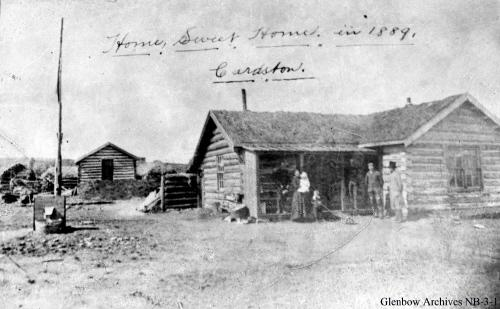 log cabin that housed the Card family, including Charles Card, Zina Young Card, and Zina Card Brown, located in Cardston, Alberta, Canada